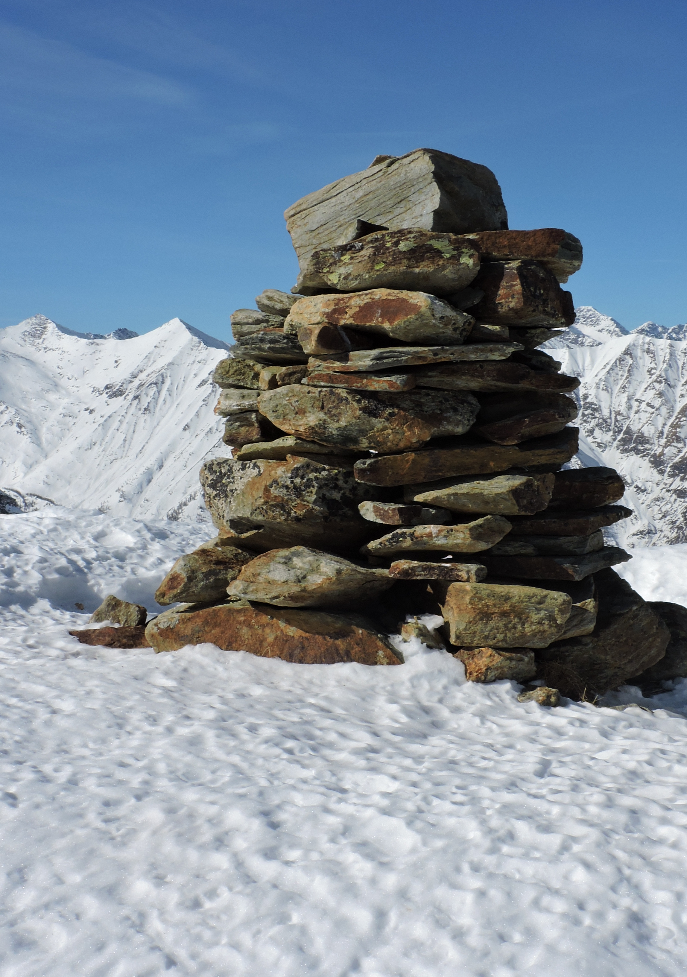 Punta Gardetta (Cottian Alps): summit cairn, on its left mounts Gran Queyron and Frappier